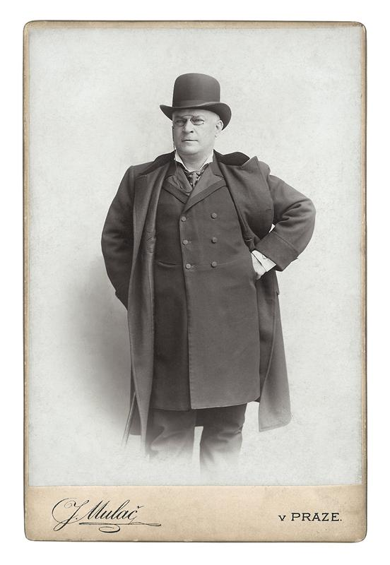 Czech opera singer (baritone) Václav Viktorin (1849–1924), civil photograph by Jan Mulač (1841–1905)